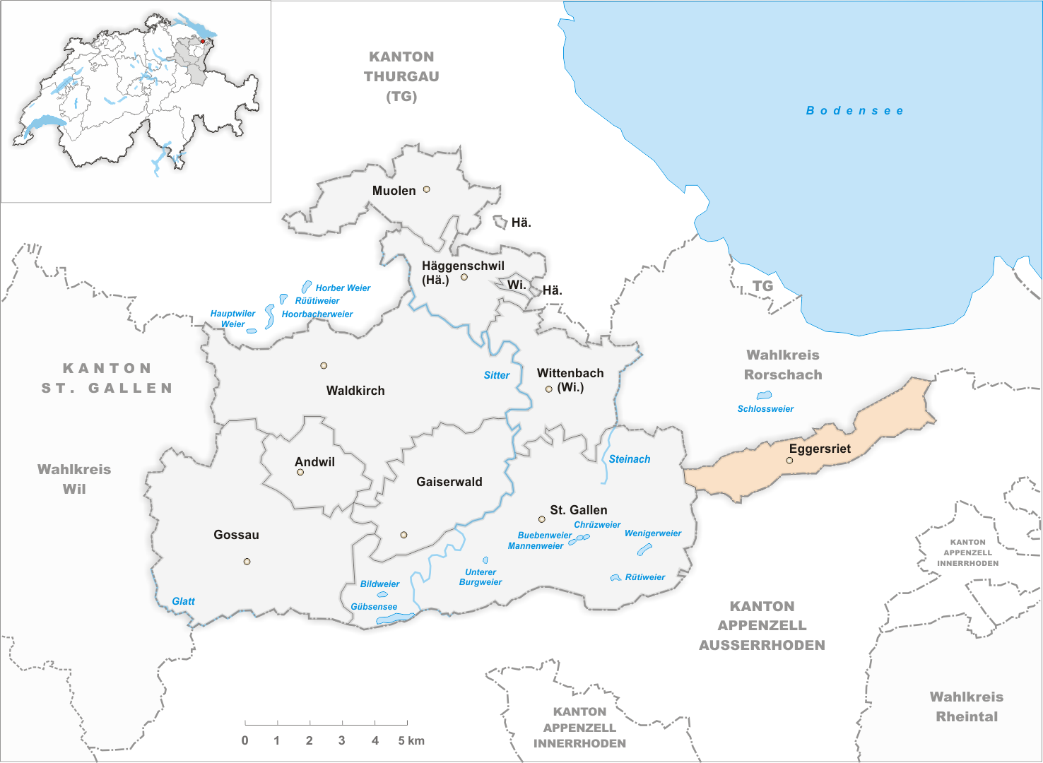 Municipality Eggersriet